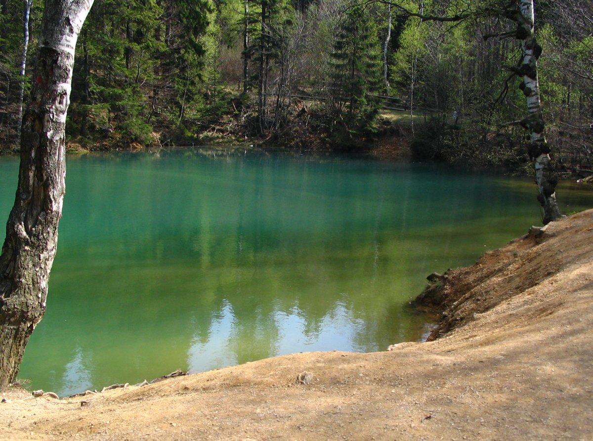 Błękitne Jeziorko (Blue Pond), Rudawy Janowickie Mountains, Poland Author: Piter T.